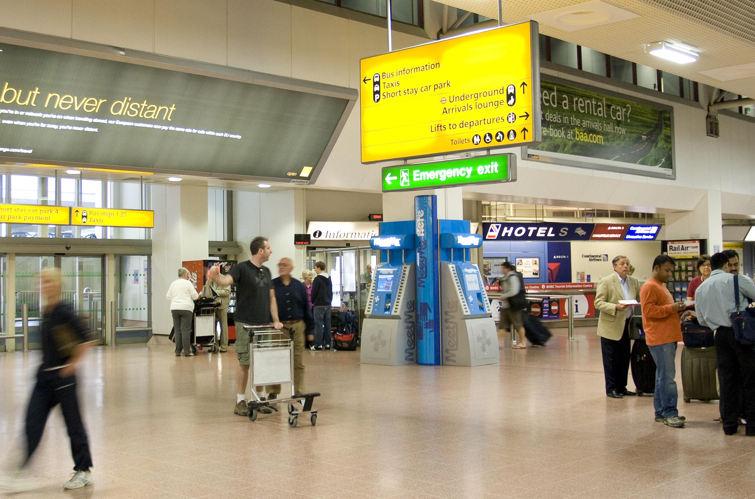 MeetMe Kiosks at London's Heathrow Airport Terminal 4 Arrivals